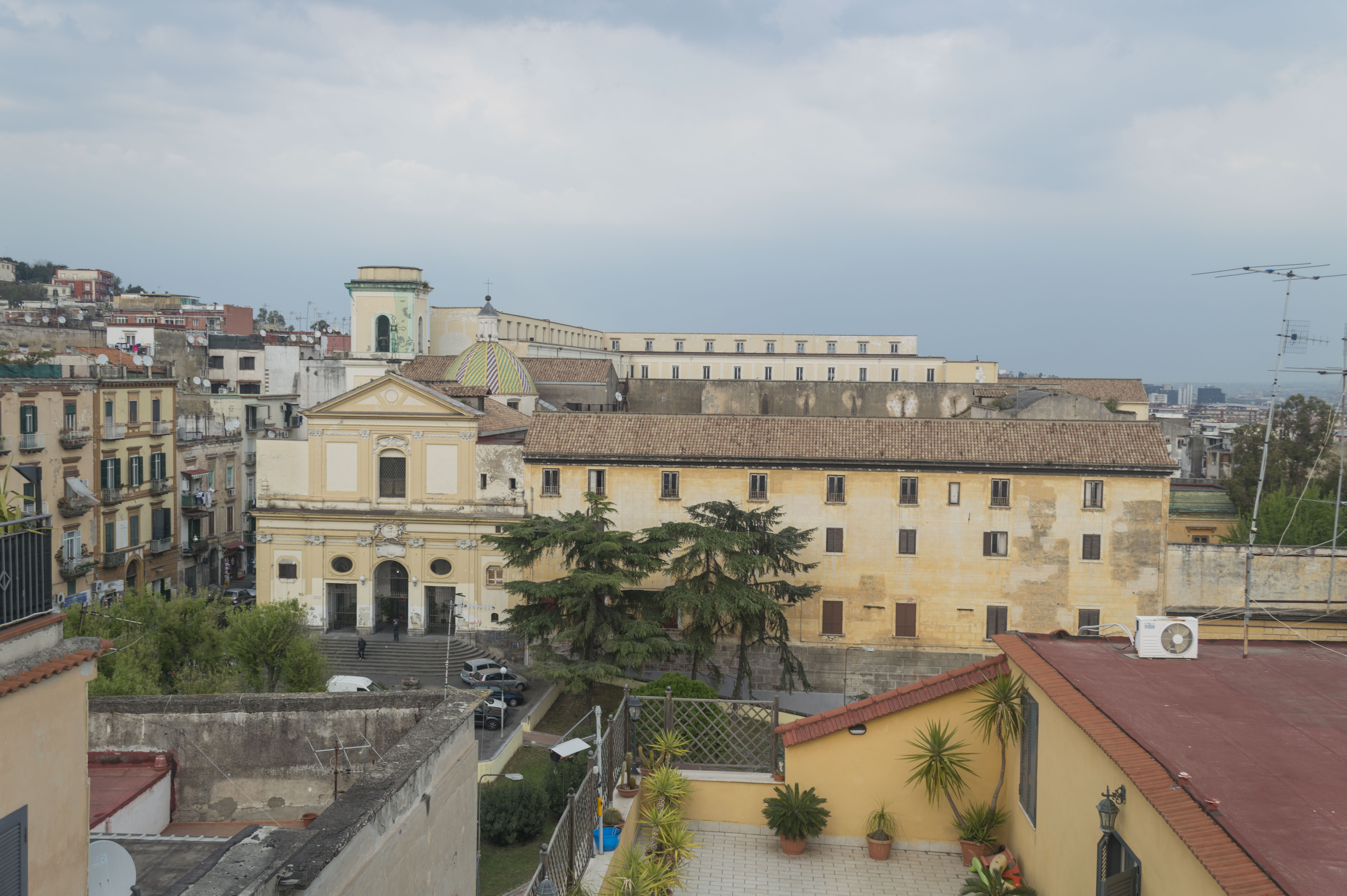 Views of Naples from roof of old monastery of Chiesa di Santa Maria dei Vergini.